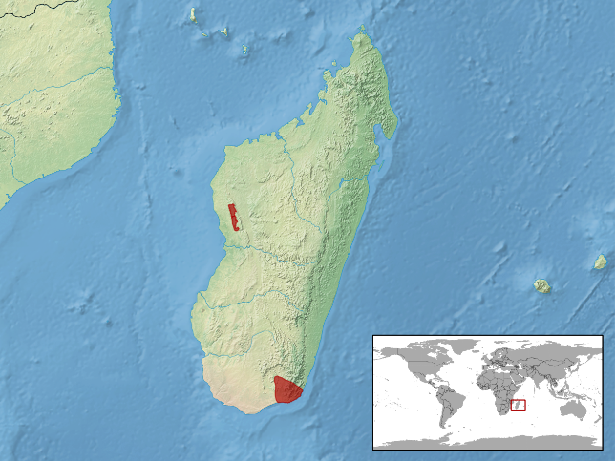 geographic distribution of Amphiglossus splendidus